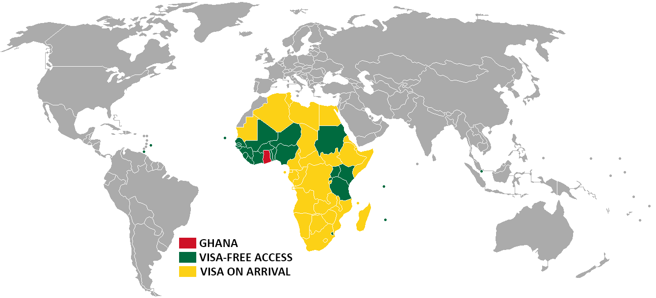 Visa policy of Ghana Ghana Visa exempt Visa on arrival